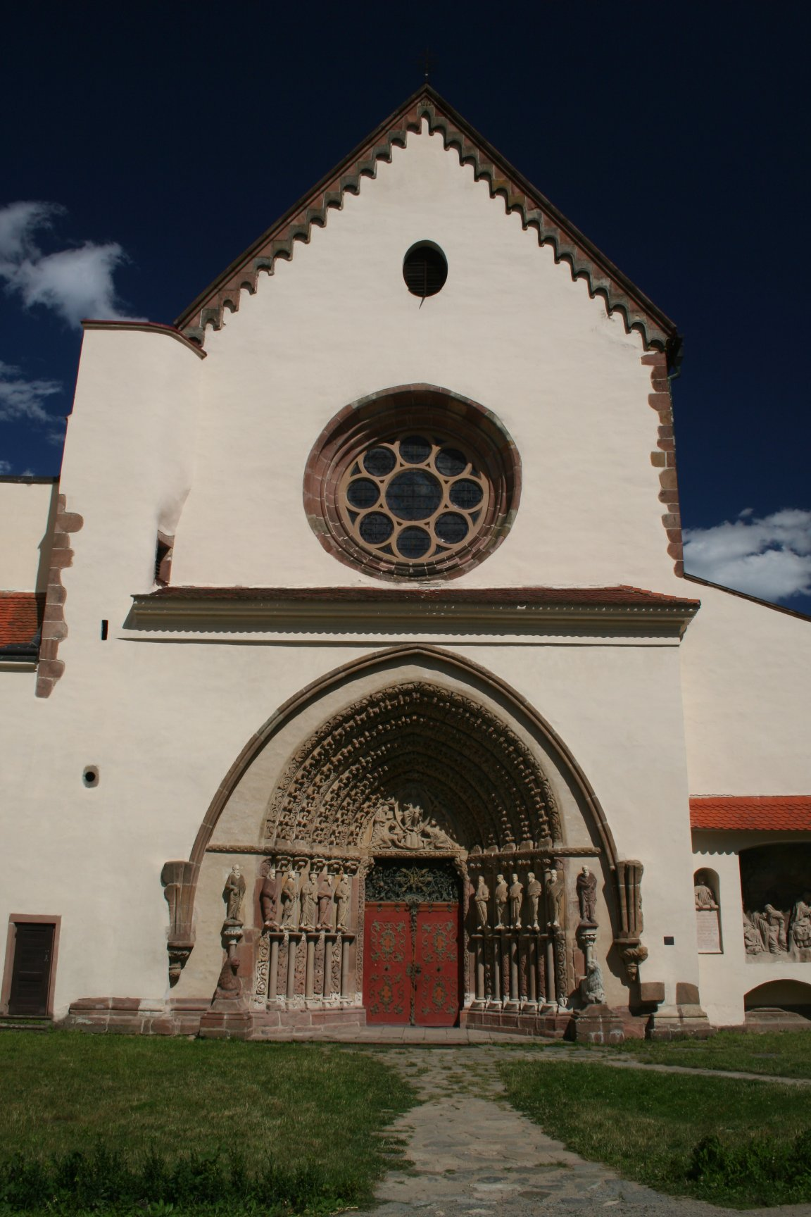 Church at Cistercians's monastery Porta Coeli, Předklášteří, the Czech Republic